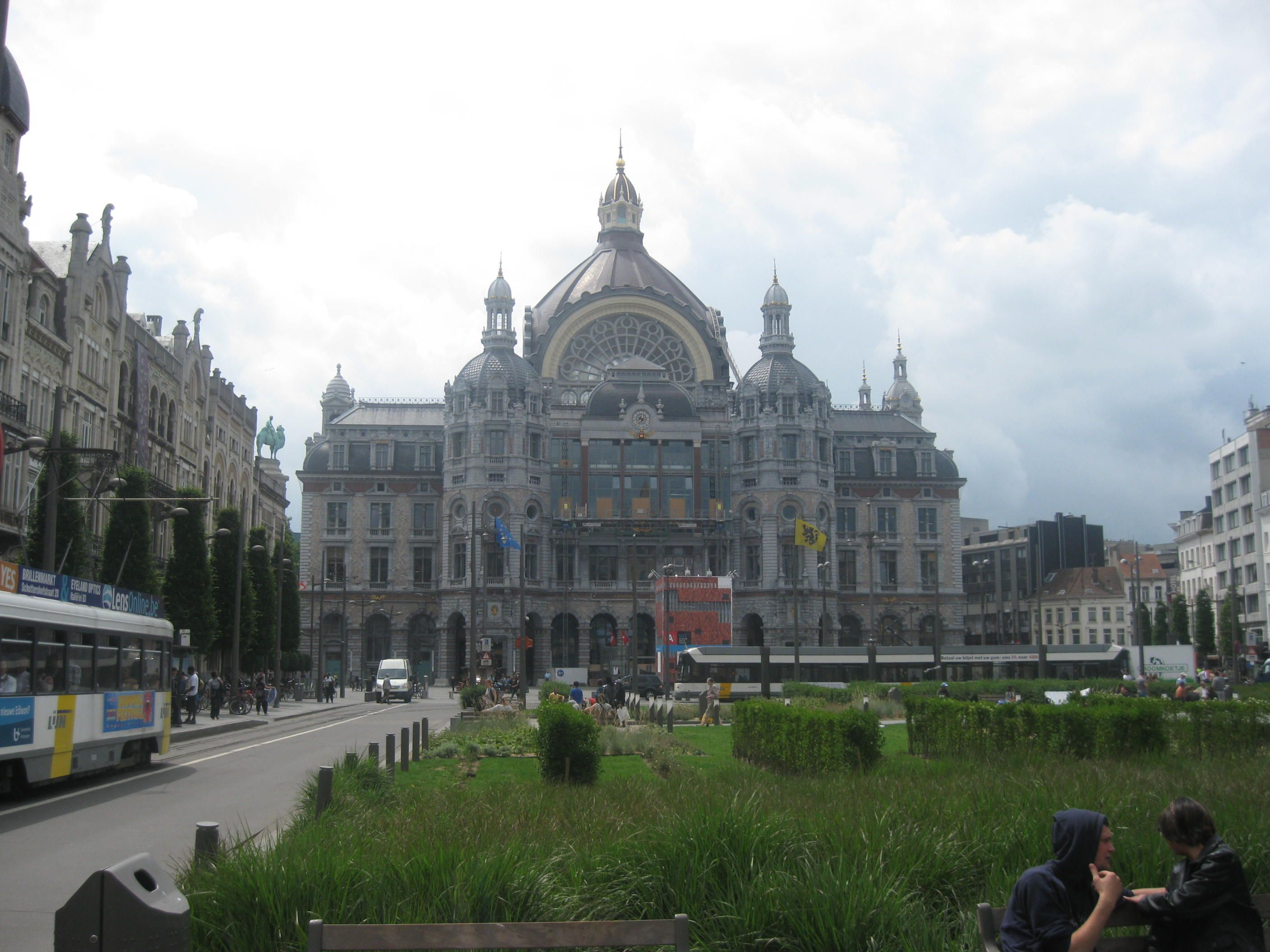 Antwerpen Centraal (Central Station)